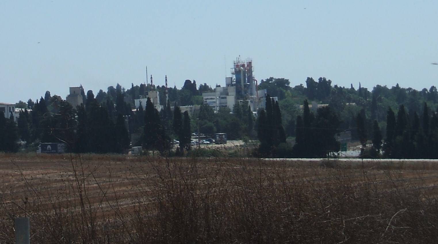 Kibbutz Dalia, Meggido council, Israel